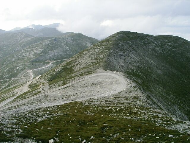 Jakupica Mounatins in southern part of the republic of Macedonia